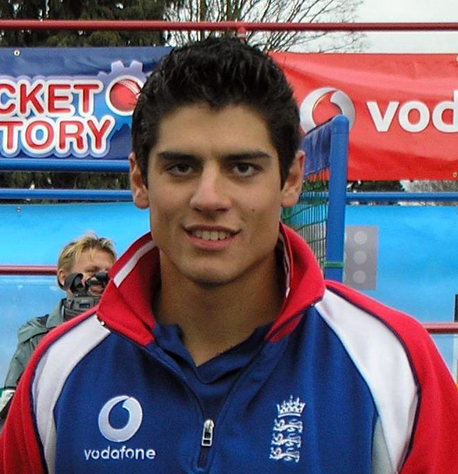 Alastair Cook at Cricketforce Launch, Upminster Park, Upminster. See also Upminster CC